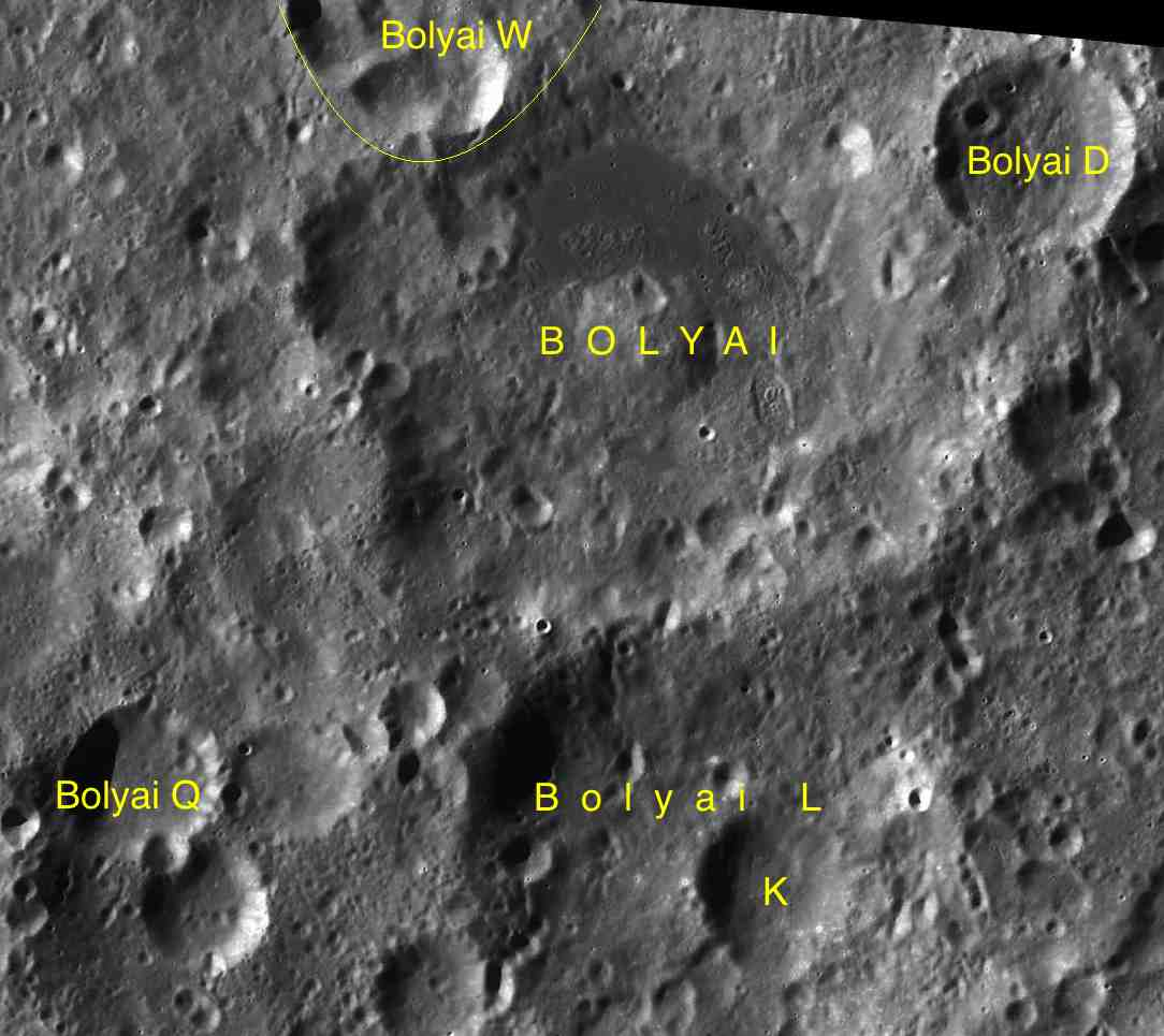 Part of the chart LAC-117 used for the presentation